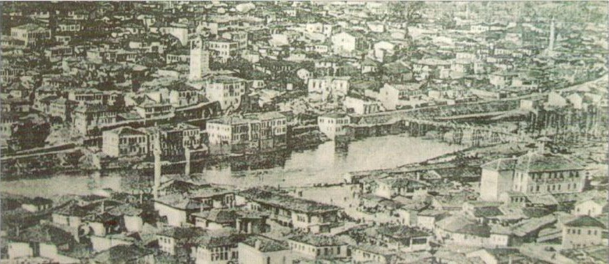 An old panoramic picture of Veles, Macedonia. (c. 1910)